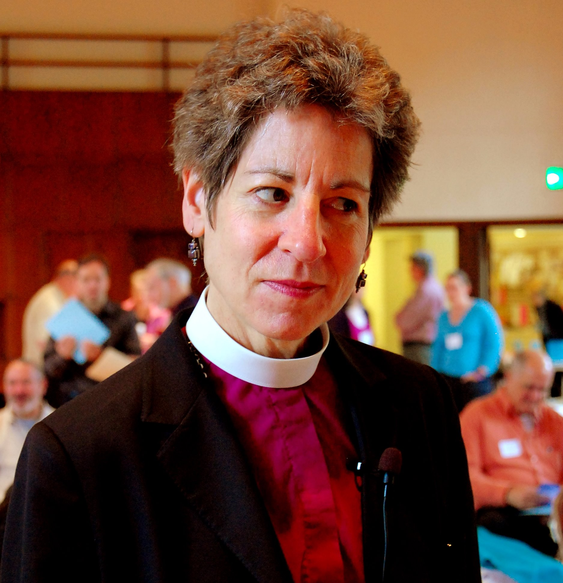 The Most Reverend Dr. Katharine Jefferts Schori, 26th Presiding Bishop of the Episcopal Church in the United States (ECUSA), at an event at the Trinity Episcopal Cathedral in Portland, Oregon on 2009-06-06.